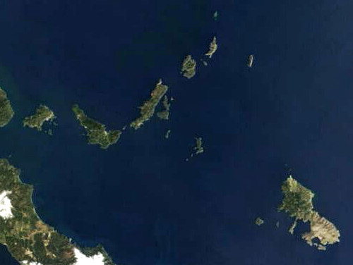 Satellite image of Sporades in March 2003. Cropped from File:Satellite_image_of_Greece_in_March_2003.jpg